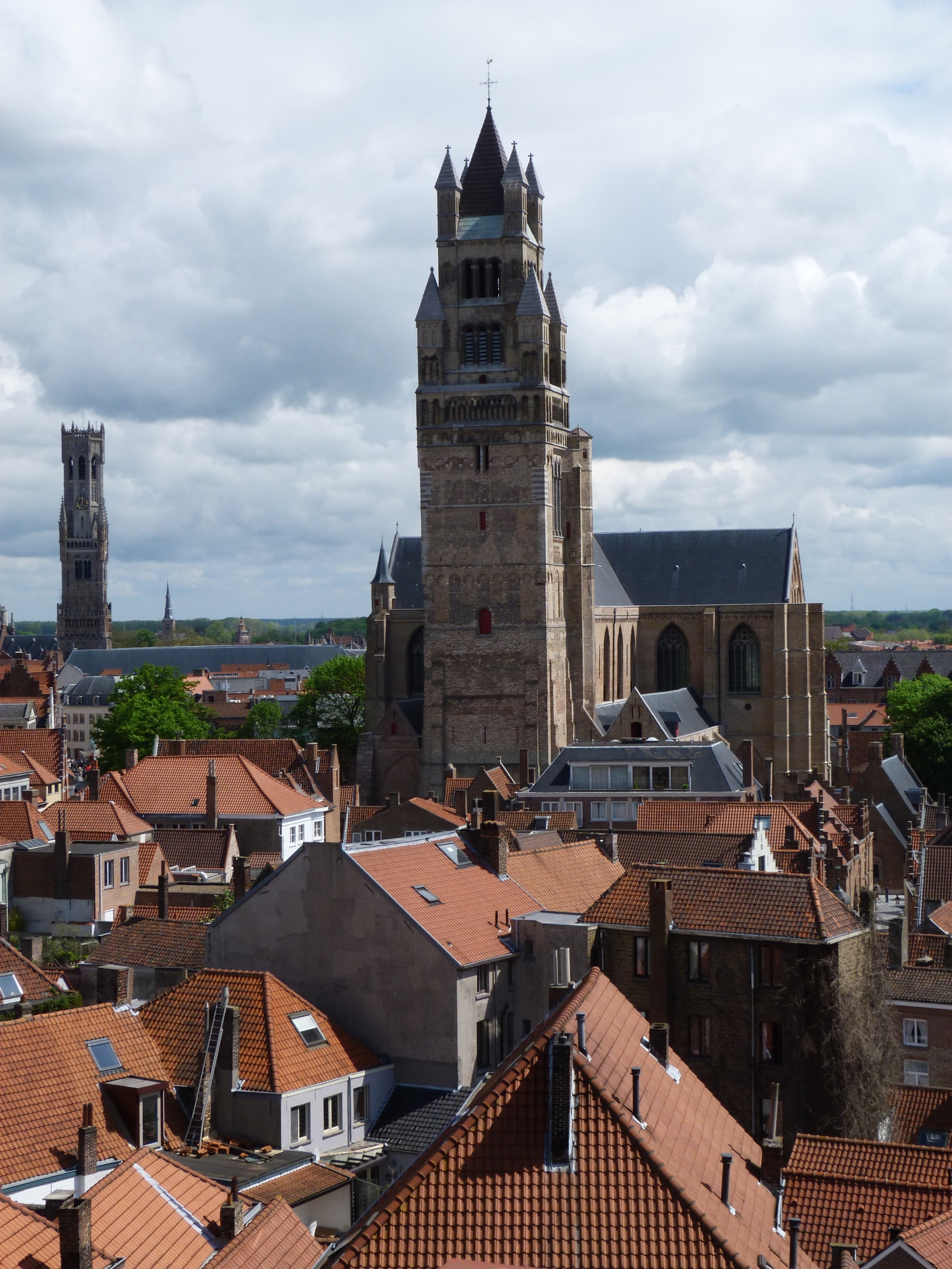 View on the belfry and St.-Salvator's cathedral of Bruges from Lantern Tower